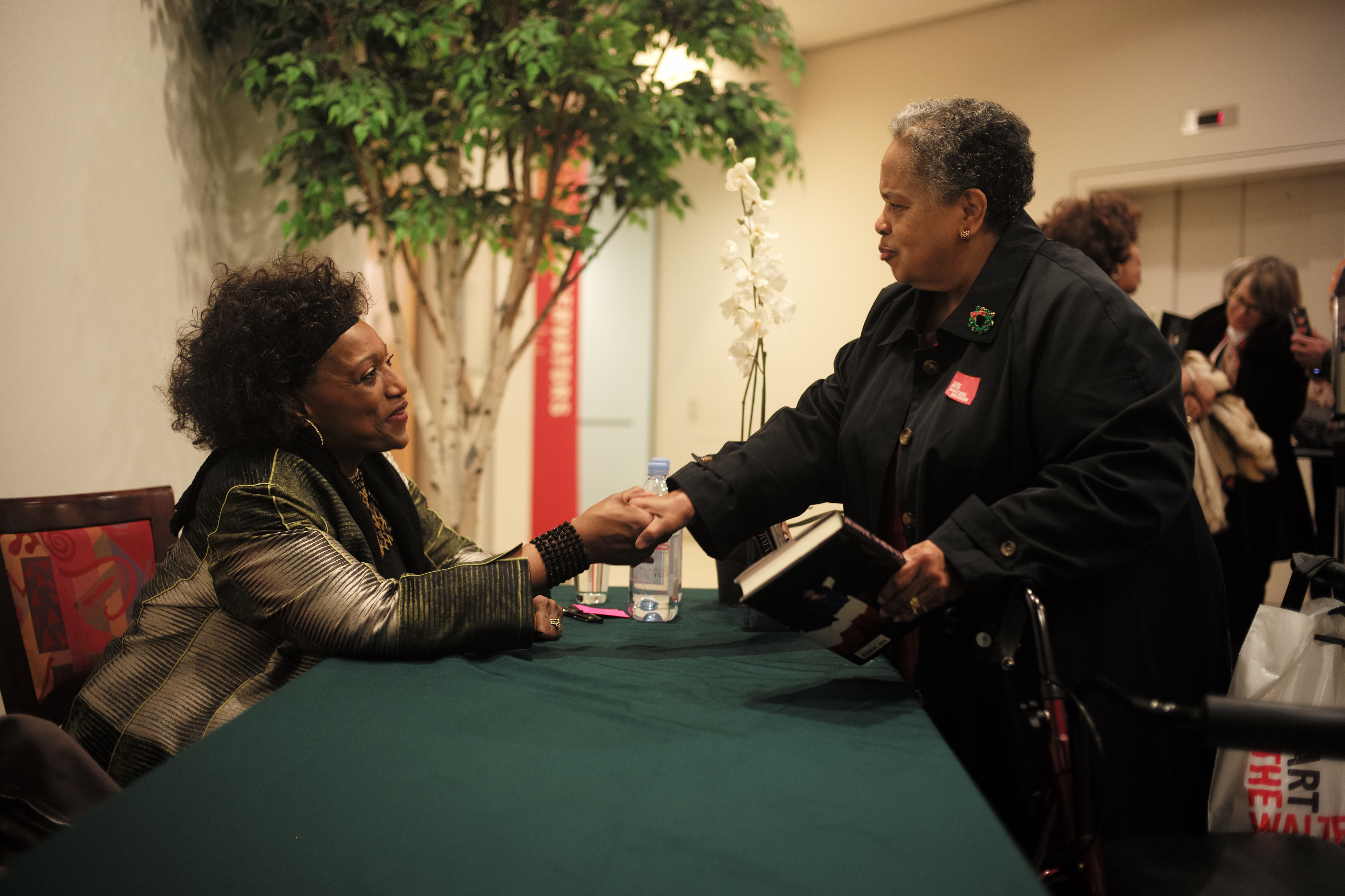 Photo by Jati Lindsay